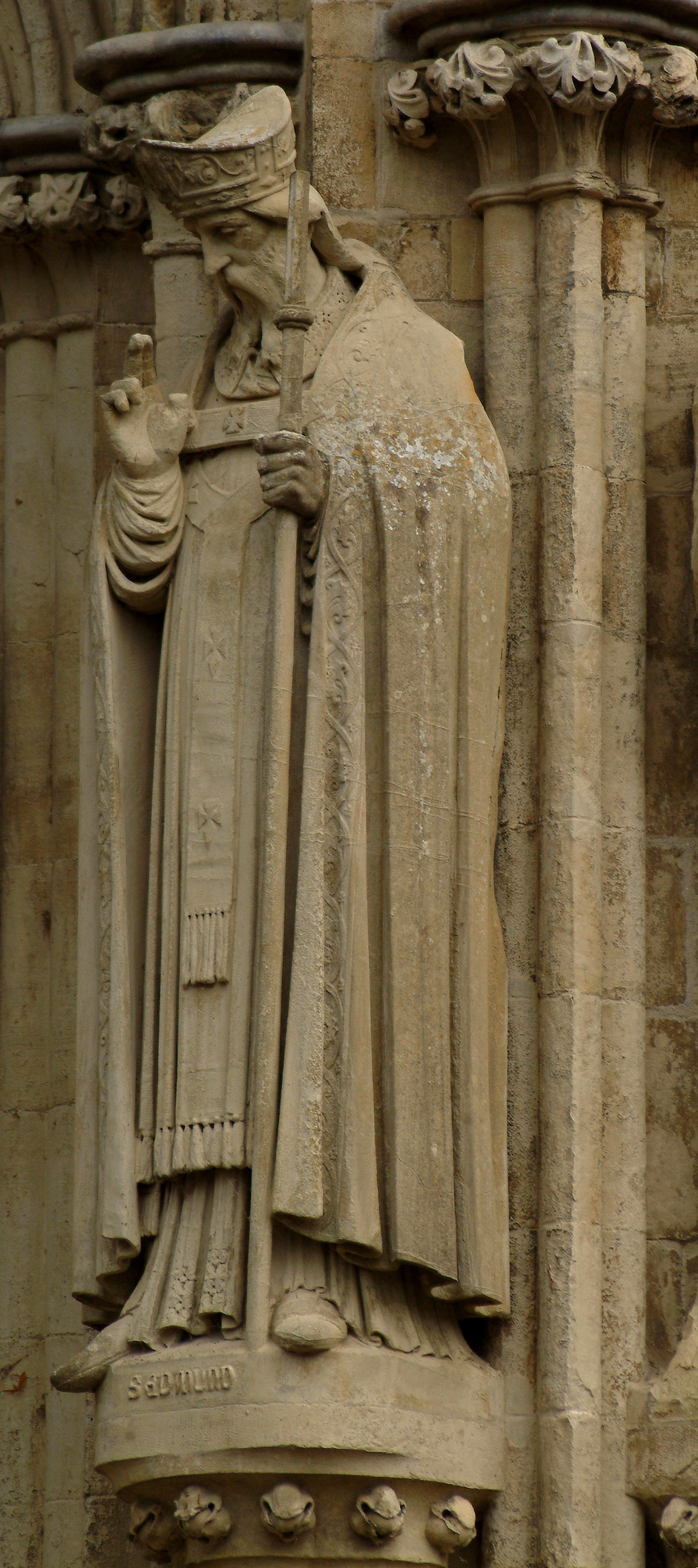 Statue of St Edmund of Canterbury on the West Front of Salisbury Cathedral, UK.